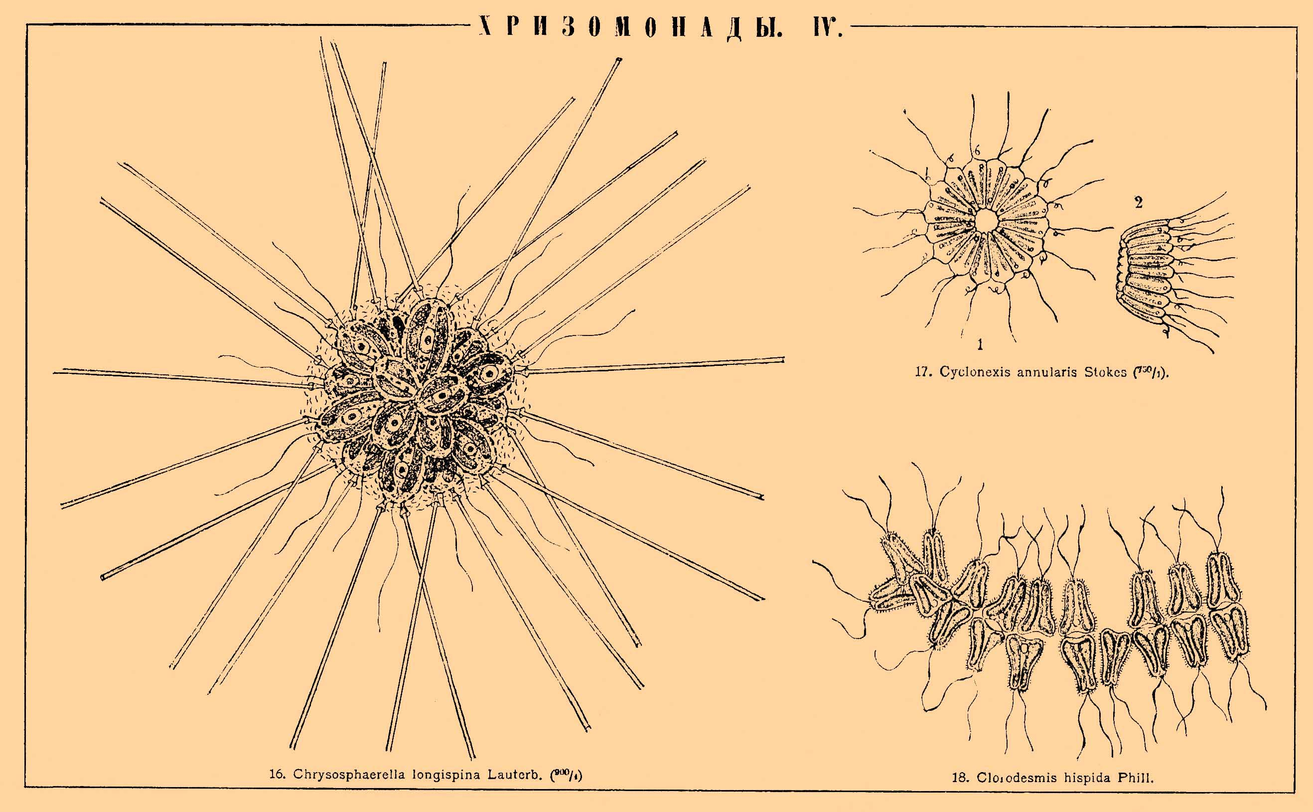 ХРИЗОМОНАДЫ. II. 16. Chrysosphaerella longispina 17. Cyclonexis annularis Stokes 18. Chlorodesmis hispida Phill. = Chlorodesmos hispida F.W.Phillips